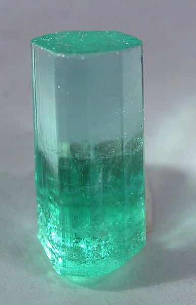 Beryl (Var.: Emerald) Locality: Muzo Mine, Muzo, Vasquez-Yacopí Mining District, Boyacá Department, Colombia (Locality at ) Size: 1.3 x 0.6 x 0.6 cm. An incredibly fine 5-carat emerald crystal, that has it all: bright grass-green color, glassy luster, a fine termination, and most of all, TOP gemminess.